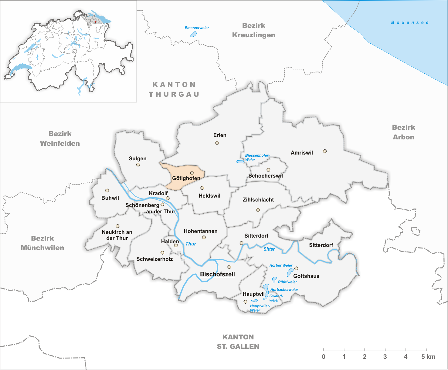 Municipality Götighofen